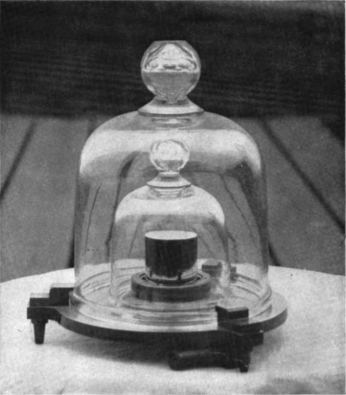 A national prototype kilogram standard mass, number K4, kept by the National Institute of Standards and Technology, USA, one of two which serve as the official standard for defining all units of weight and mass in the United States. It is a polished cylinder made of 90% platinum - 10% iridium alloy, 39 mm (1.5 inches) in diameter and 39 mm high. It is an exact copy of the international prototype kilogram kept at the International Bureau of Weights and Measures (Bureau International des Poids et Measures) in Sevres, France It was one of 40 copies which were presented by France in 1884 to different nations as national standards. This copy, K4, serves as a secondary comparison standard, while its twin, K20, serves as the primary standard. In 1884, it differed in mass from the prototype kilogram by about 75 micrograms. Alterations to image: Removed aliasing artifacts (stripes) due to scanning of halftone photo using GIMP FFT filter.